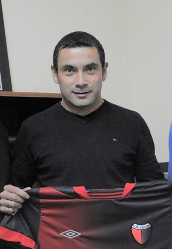 telechea